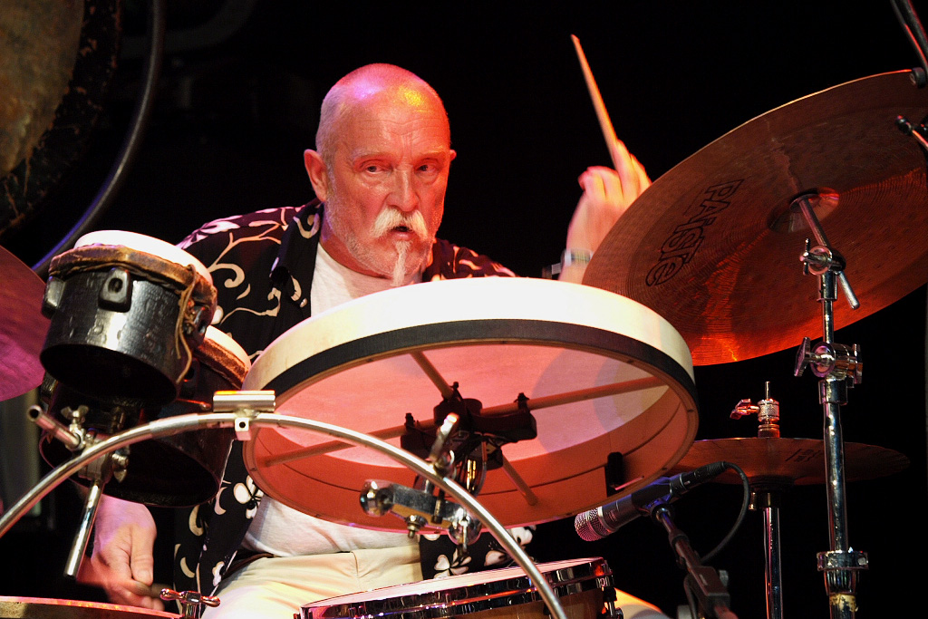 Günter "Baby" Sommer at moers festival 2008